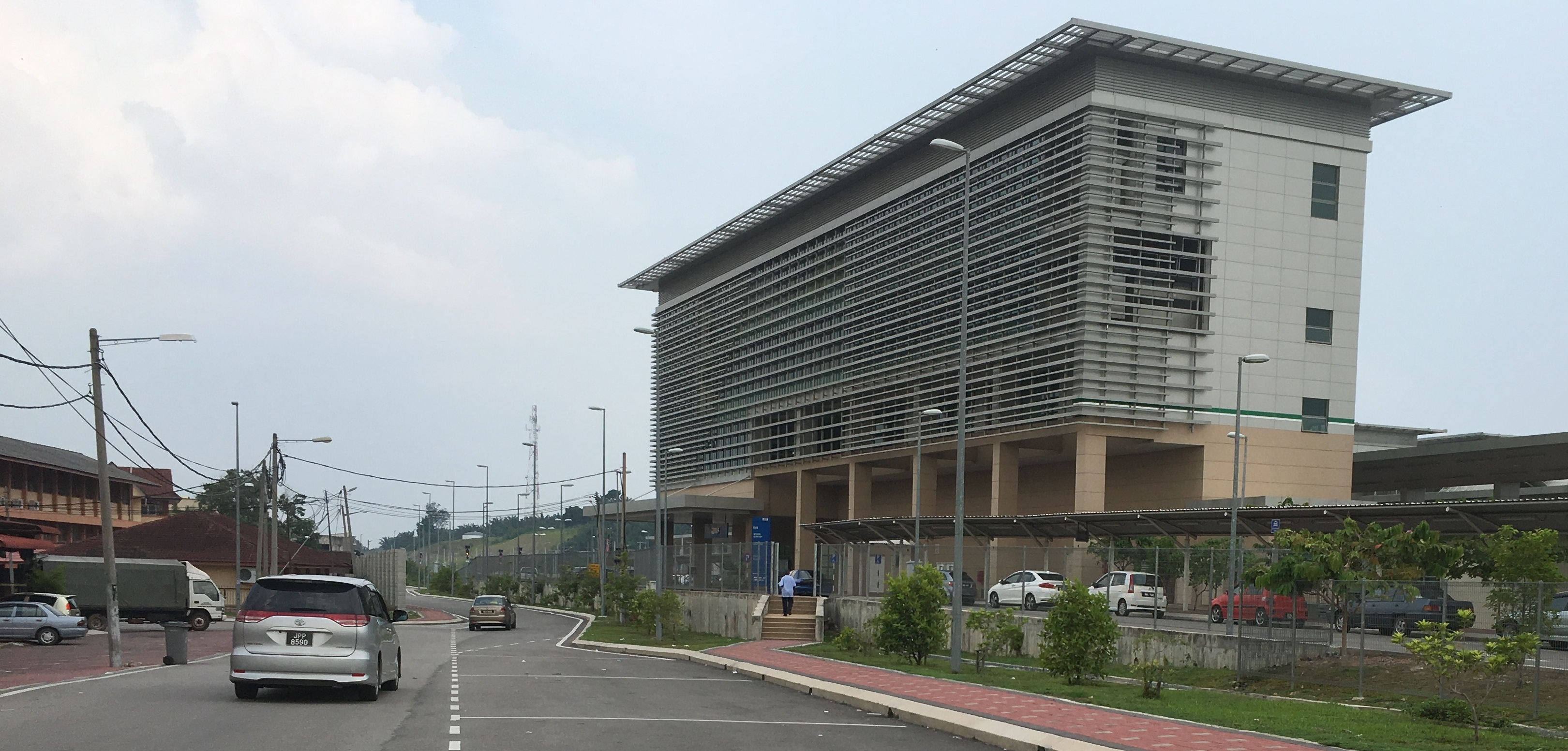 View of the new Gemas Railway Station which was constructed as part of the Seremban-Gemas Double Tracking and Electrification Project.